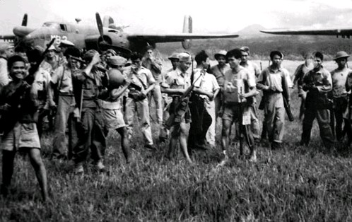 Philippine guerillas greet the crews of U.S. Marine Corps North American PBJ-1D Mitchell Bombers on Mindanao, 1945. Marine Bombing Squadron VMB-611 operated in the Philippines. Note the radar (Hose Nose) fitted to the nose of plane "MB-3" in the background.